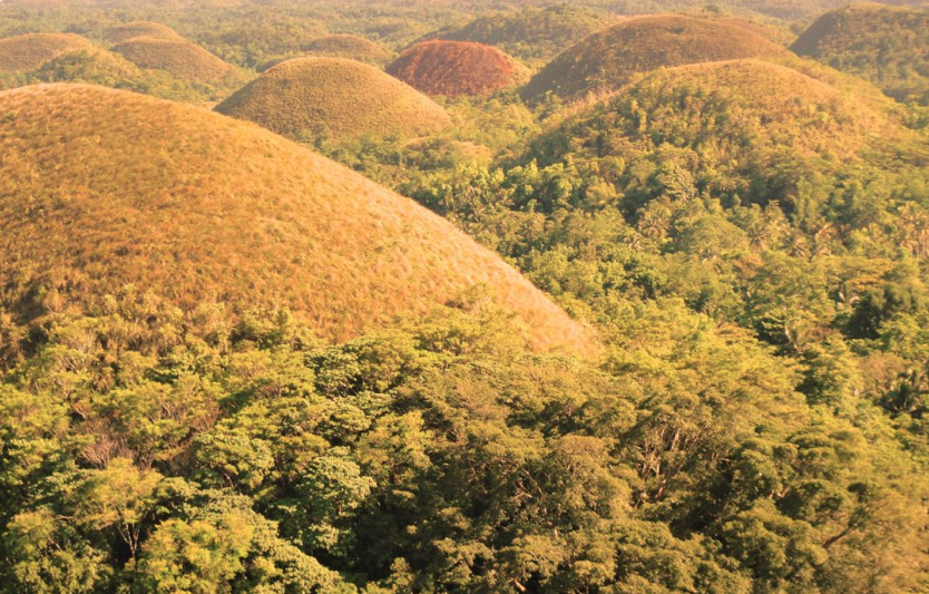 Chocolate hills, Bohol